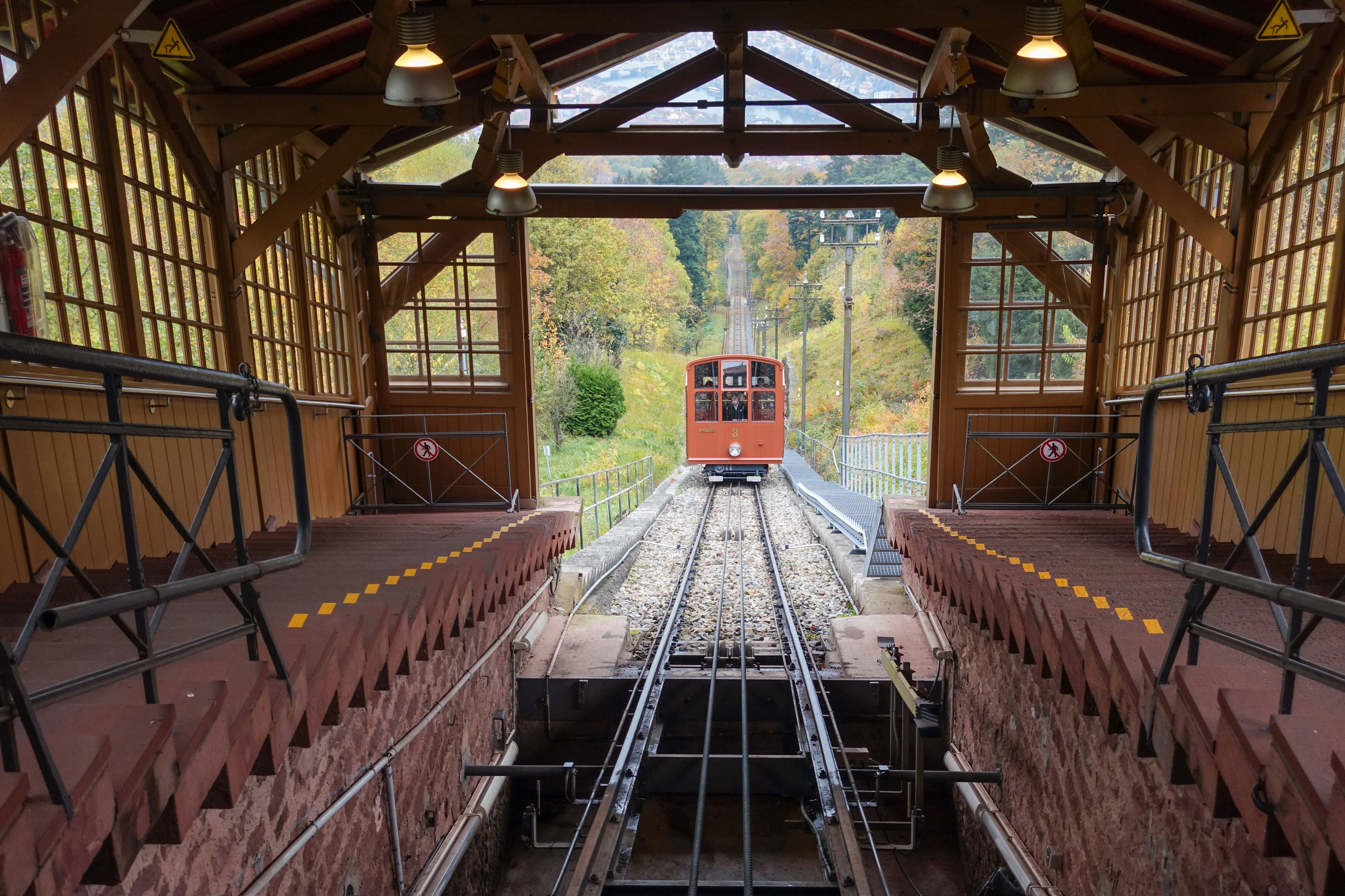 Funicular Heidelberg, arrival - top station Koenigstuhl